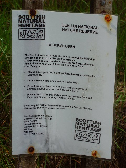 Foot and Mouth sign. The power of lamination. over 5 years of exposure to Argyll weather and this open for business sign is still standing and legible.